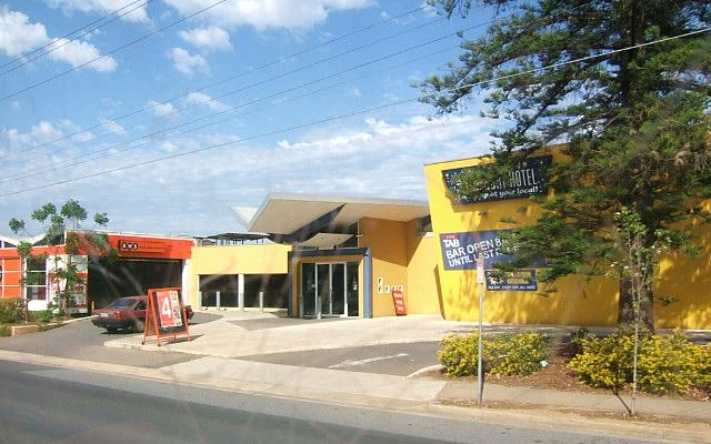 Finsbury Hotel, Woodville North, Adelaide, South Australia